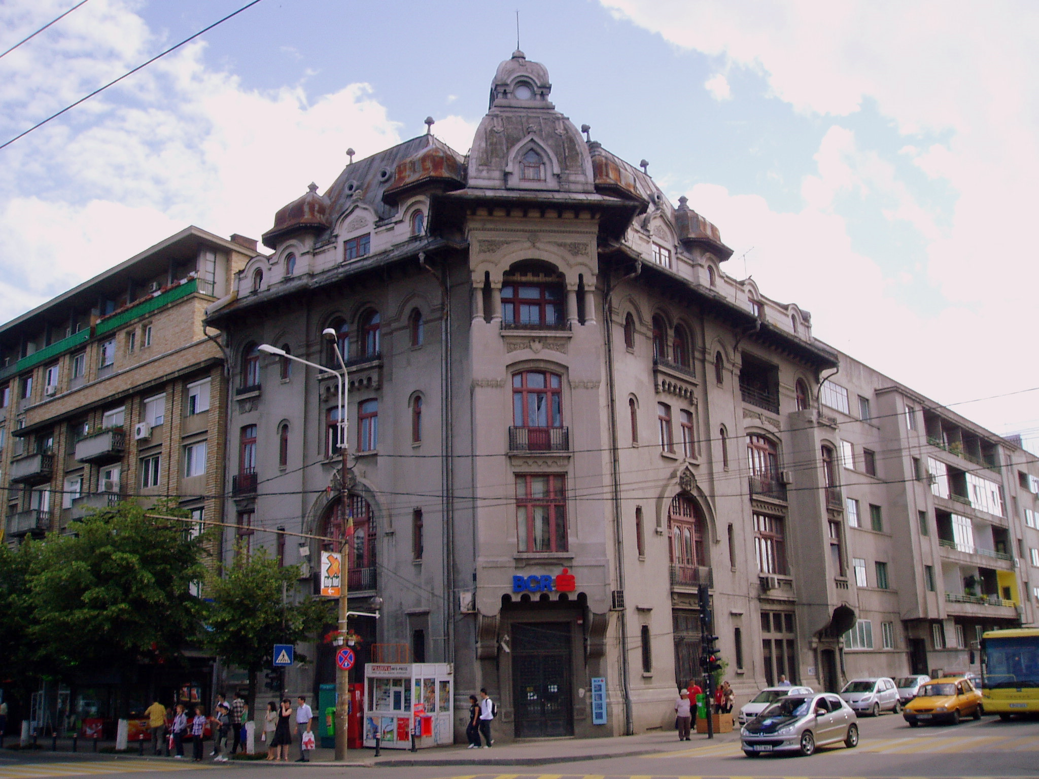 Creditul Prahovei done by Toma T. Socolescu in 1923. This building is located Strada Tache Ionescu, nr. 1, Ploieşti, Judeţul Prahova, Romania. We are the only heirs and descendants of Toma T. Socolescu (died in 1960 in Bucharest) and therefore owner of all his intellectual rights.